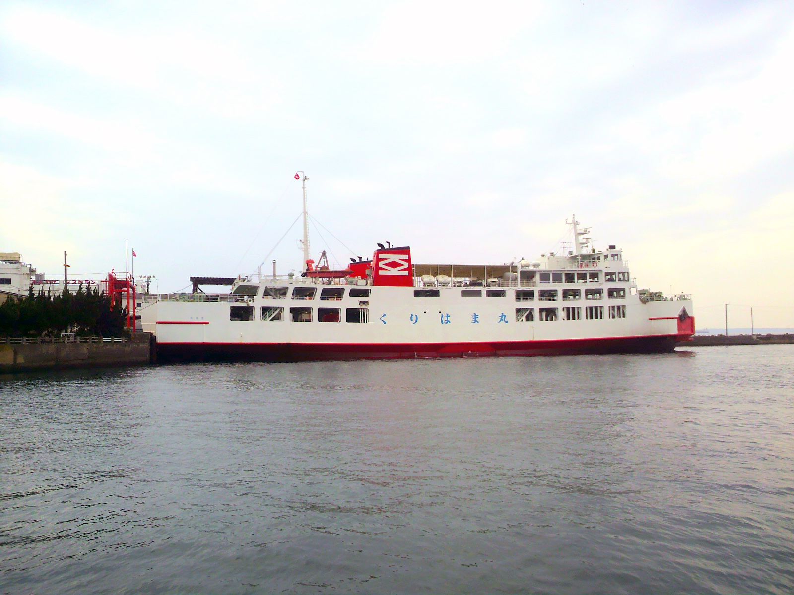 Kurihama maru of Tokyo-Wan Ferry, at Port of Kanaya.